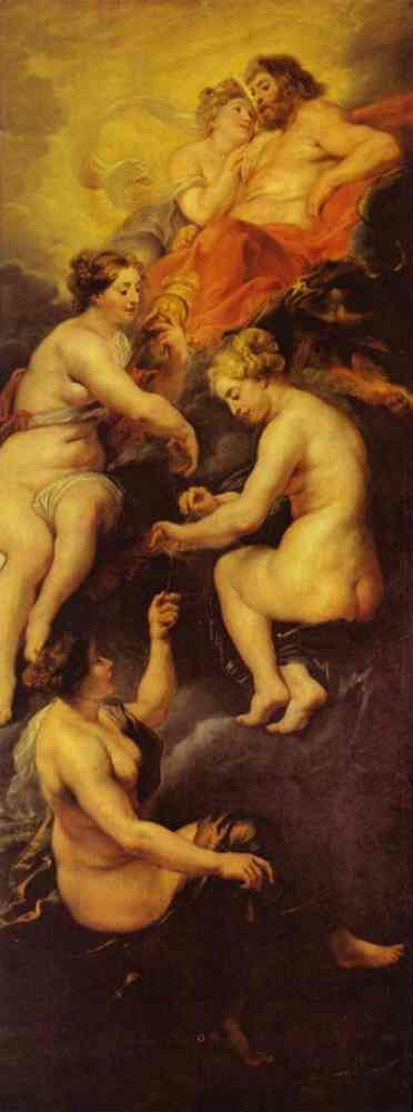 The Destiny of Marie de' Medici. Oil on canvas. Louvre, Paris, France.